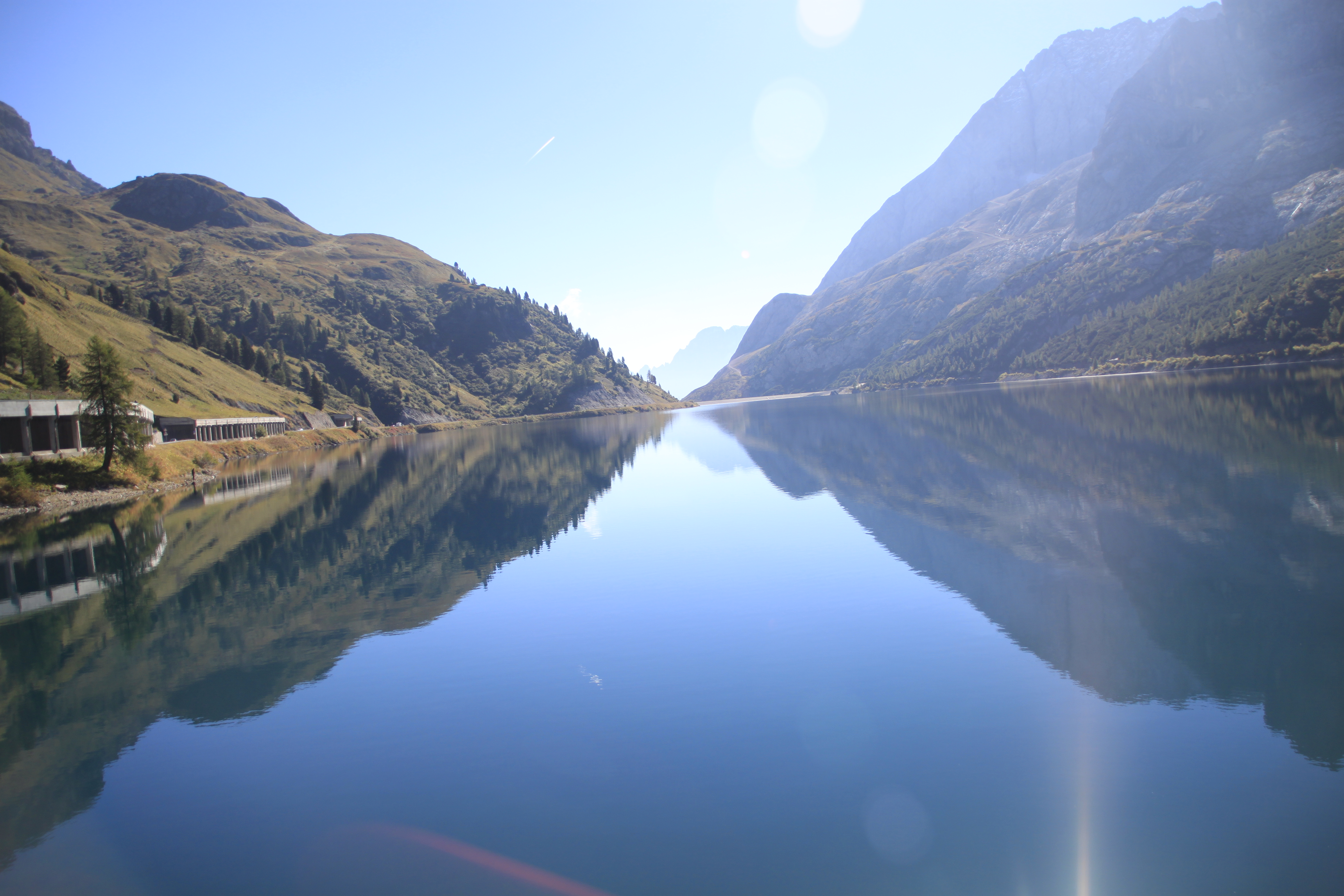 The lake is under the Dolomites in northern Italy